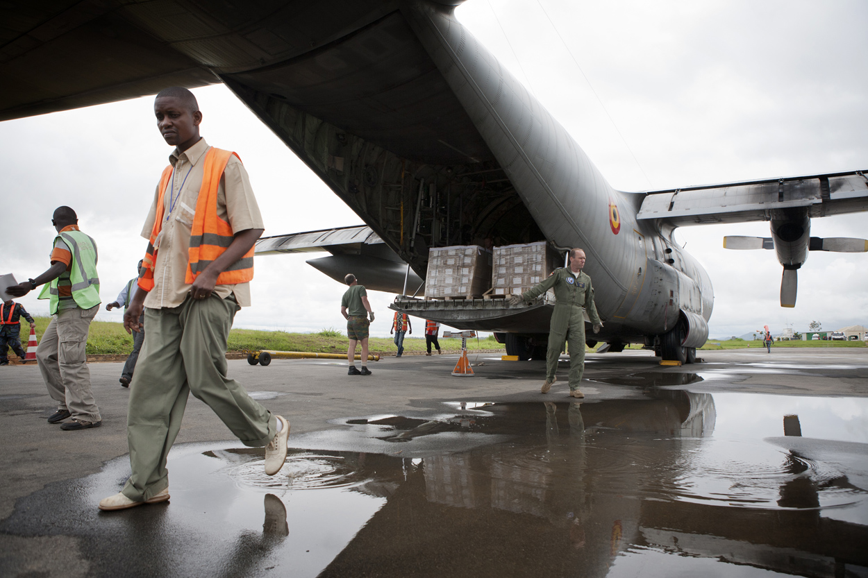 The first loads of electoral kits are being unloaded from a MONUSCO Hercule aircraft on Bunia airstrip on the 17th of september 2011. © MONUSCO/Sylvain Liechti